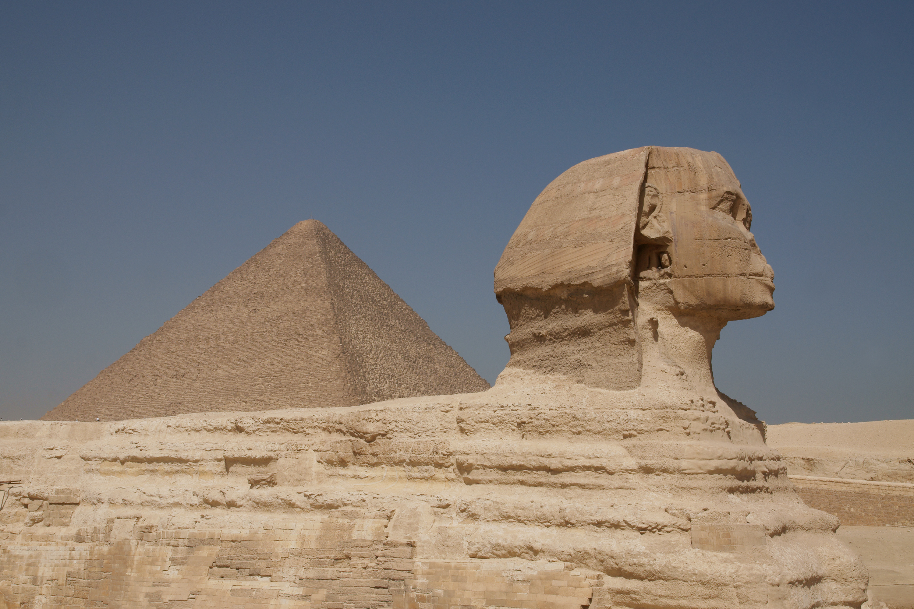 Great Sphinx of Giza and Pyramid of Cheops. The color of the sky is due to pollution of Cairo.